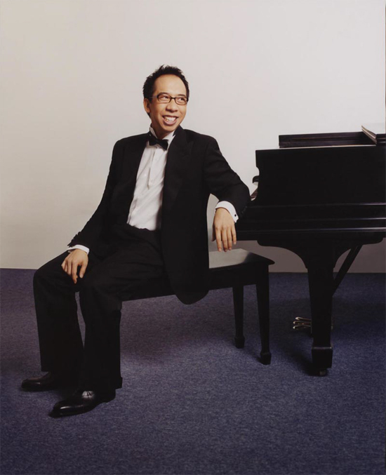 Image of Joel Fan, pianist at the Piano. A true professional image of the pianist. This image is from Joel Fan's Website and is free for download and re-use. It is a preferred image by Mr. Fan.